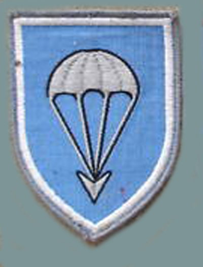 25th Airborn Brigade